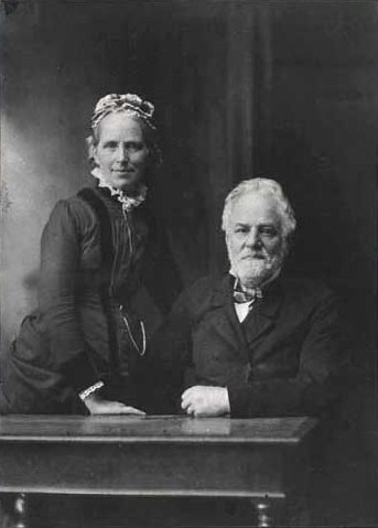 Troels Caspar Daniel Marstrand (1815-1889), Danish industrialist and politician